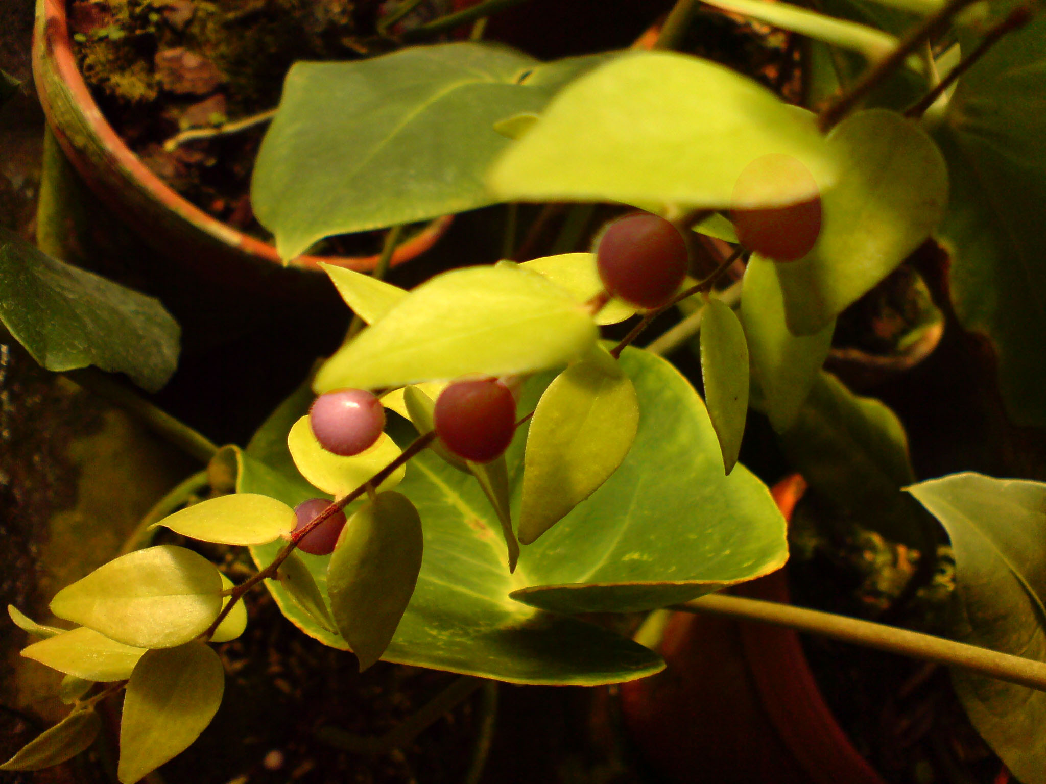 Sphyrospermum cordifolium - Botanical Garden Göttingen